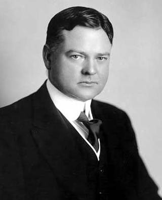 Herbert Hoover photo portrait from 1917.